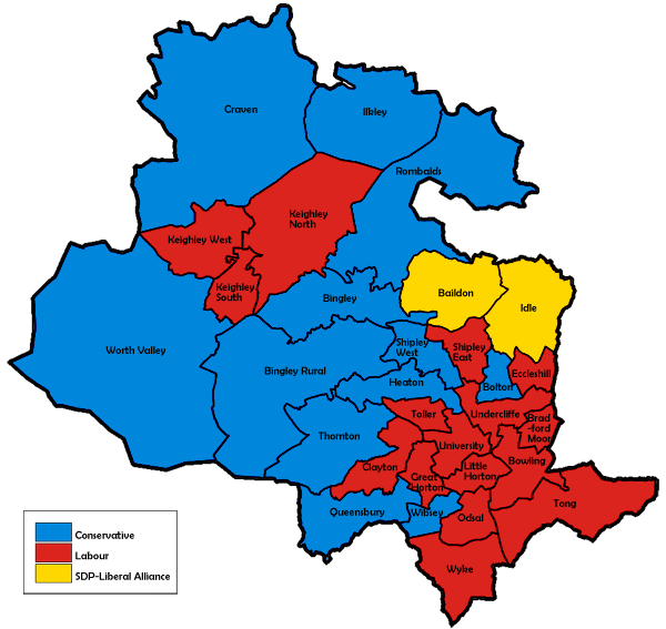 Ward map of Bradford Council with political colouring for the 1984 election.